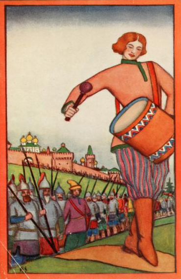 Tolstoy illustration